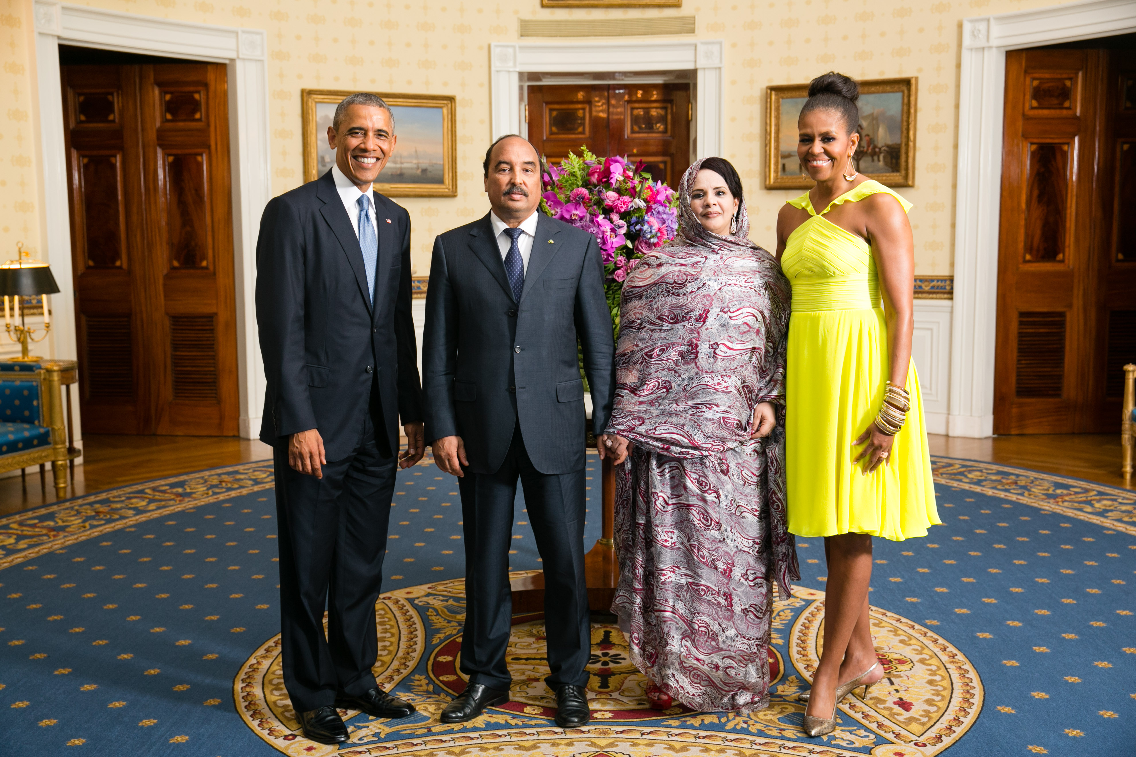 President Barack Obama and First Lady Michelle Obama greet His Excellency Mohamed Ould Abdel Aziz, President of the Islamic Republic of Mauritania, and Mrs. Mariam Mint Ahmed Dit Tekber, in the Blue Room during a U.S.-Africa Leaders Summit dinner at the White House, Aug. 5, 2014. [Official White House Photo by Amanda Lucidon] This official White House photograph is in the public domain from a copyright perspective, so while restrictions such as personality or privacy rights may apply, in general, manipulations are allowed.